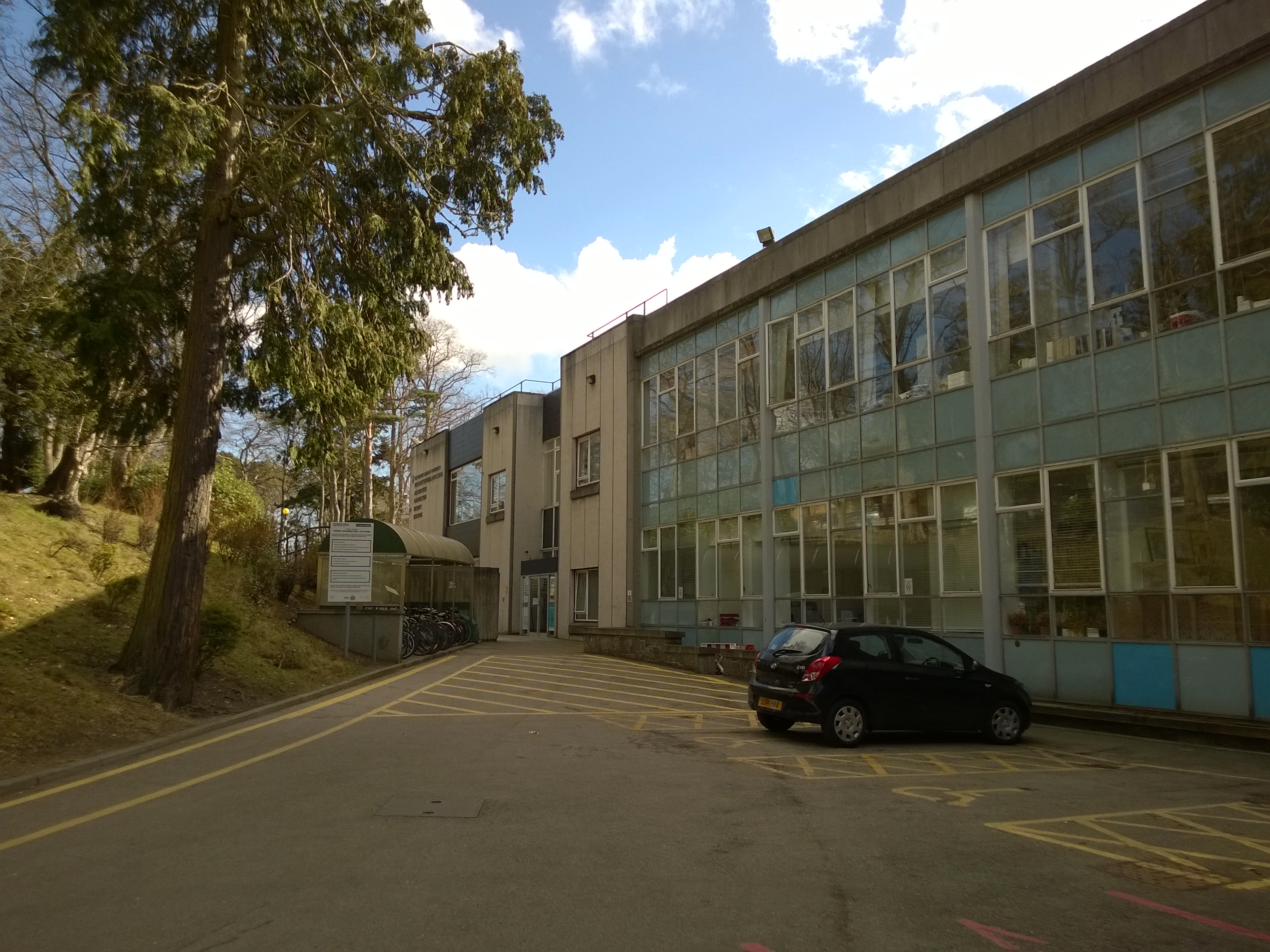 Scott Sutherland building at The Robert Gordon University, Aberdeen, UK showing main entrance. Section at left opened 1957 and is the work of Ian Fraser of T. Scott Sutherland and Partners, section with main entrance at right opened 1969 and is the work of Thomson, Taylor, Craig and Donald architects.